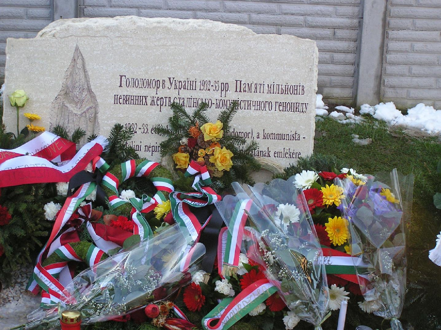 Memorial stone of the 8 million victims of Holodomor at the Gloria Victis Memorial